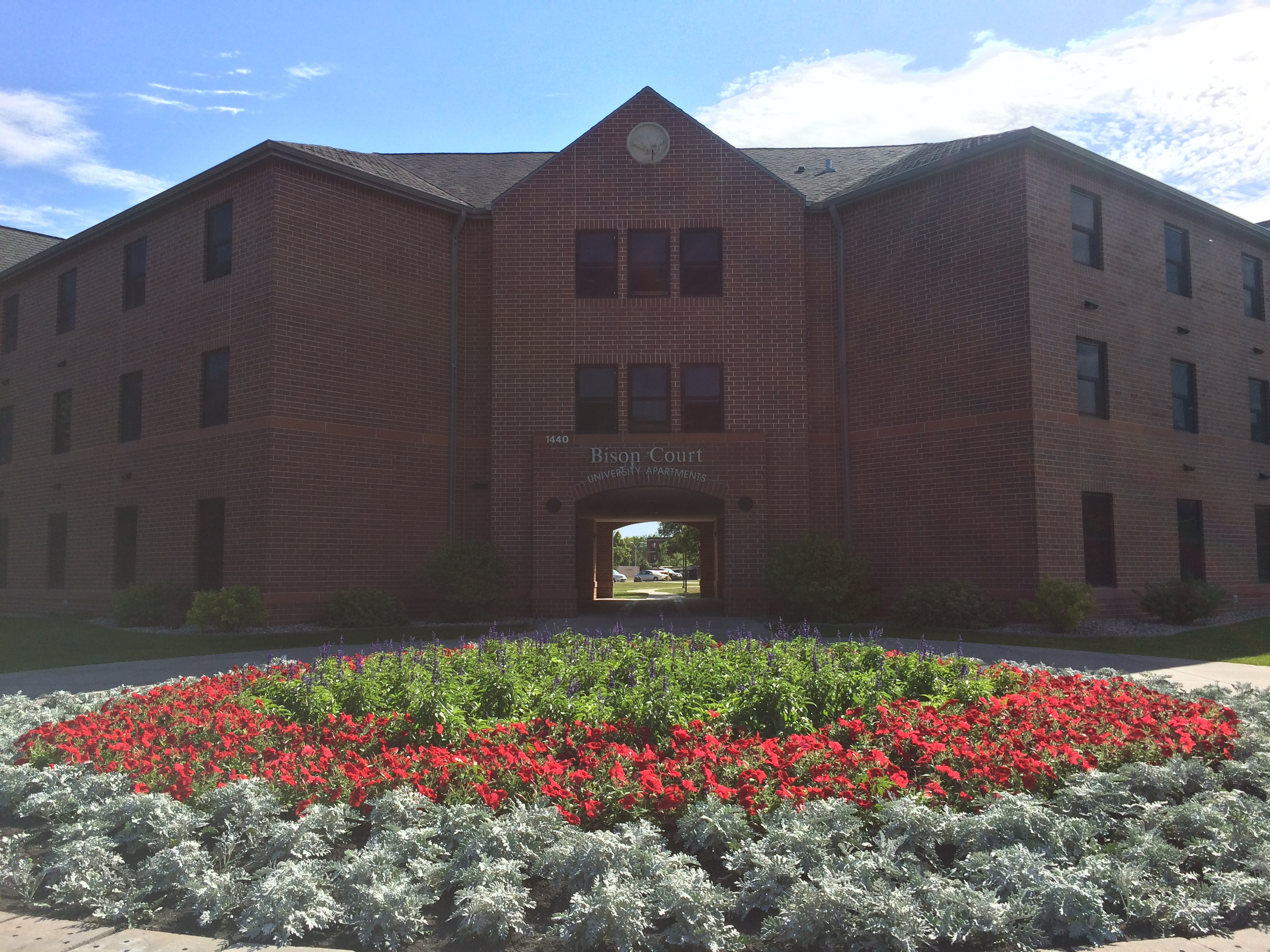 Entrance to Bison Court, one of the University Apartments